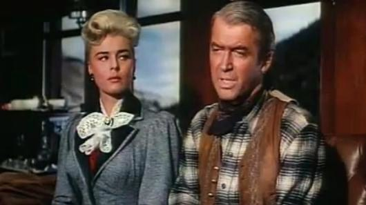 Elaine Stewart and James Stewart in Night Passage (1957) - trailer (cropped screenshot)